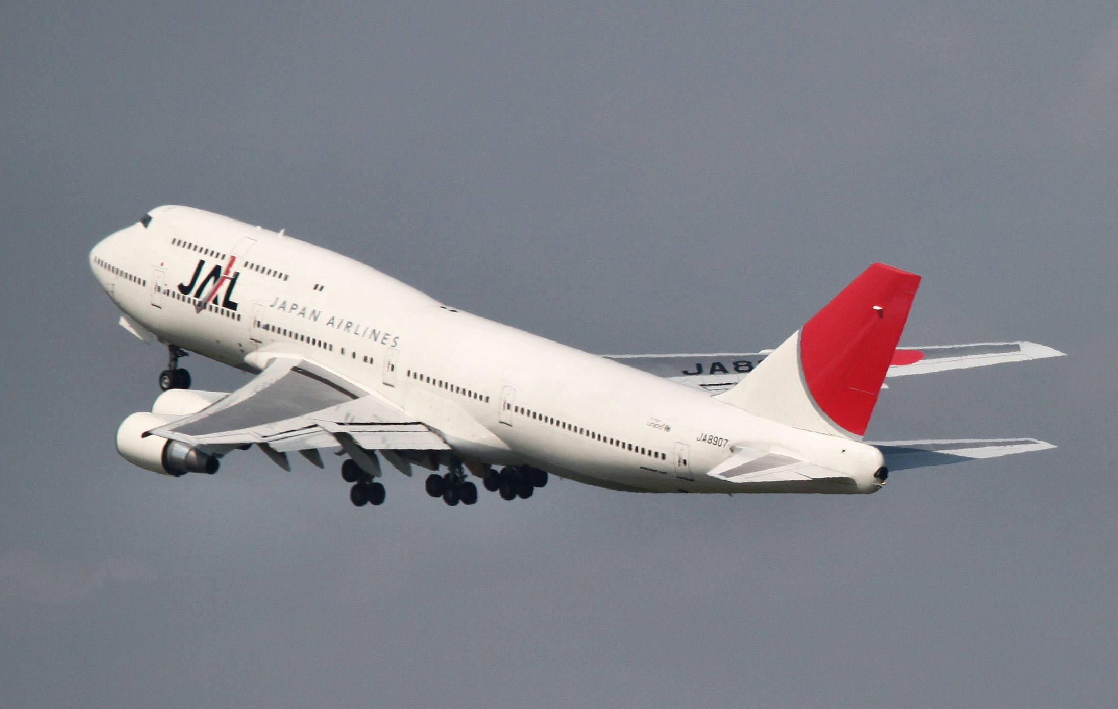 JAL Boeing 747-400D, JA8907, take off, Haneda Airport Tokyo.